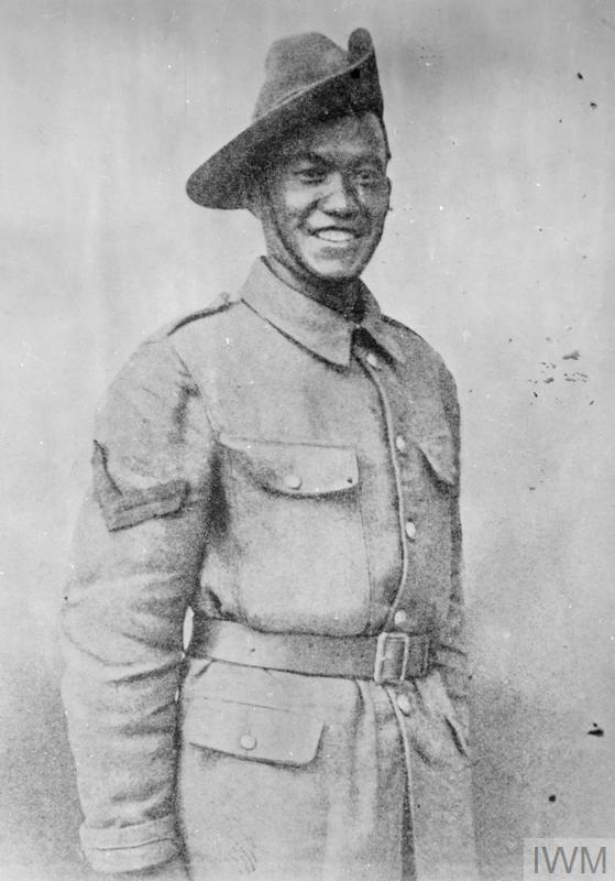 Rifleman Kulbir Thapa, 2nd Battalion, 3rd Gurkha Rifles, Indian Army, awarded the Victoria Cross, South of Fauquissart, France, 25/26 September 1915.